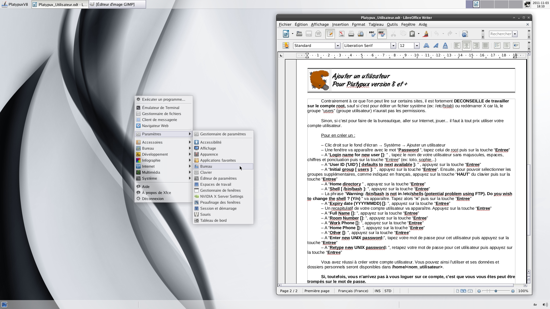 Screenshot of the Platypux Linux distro showing an ODT document